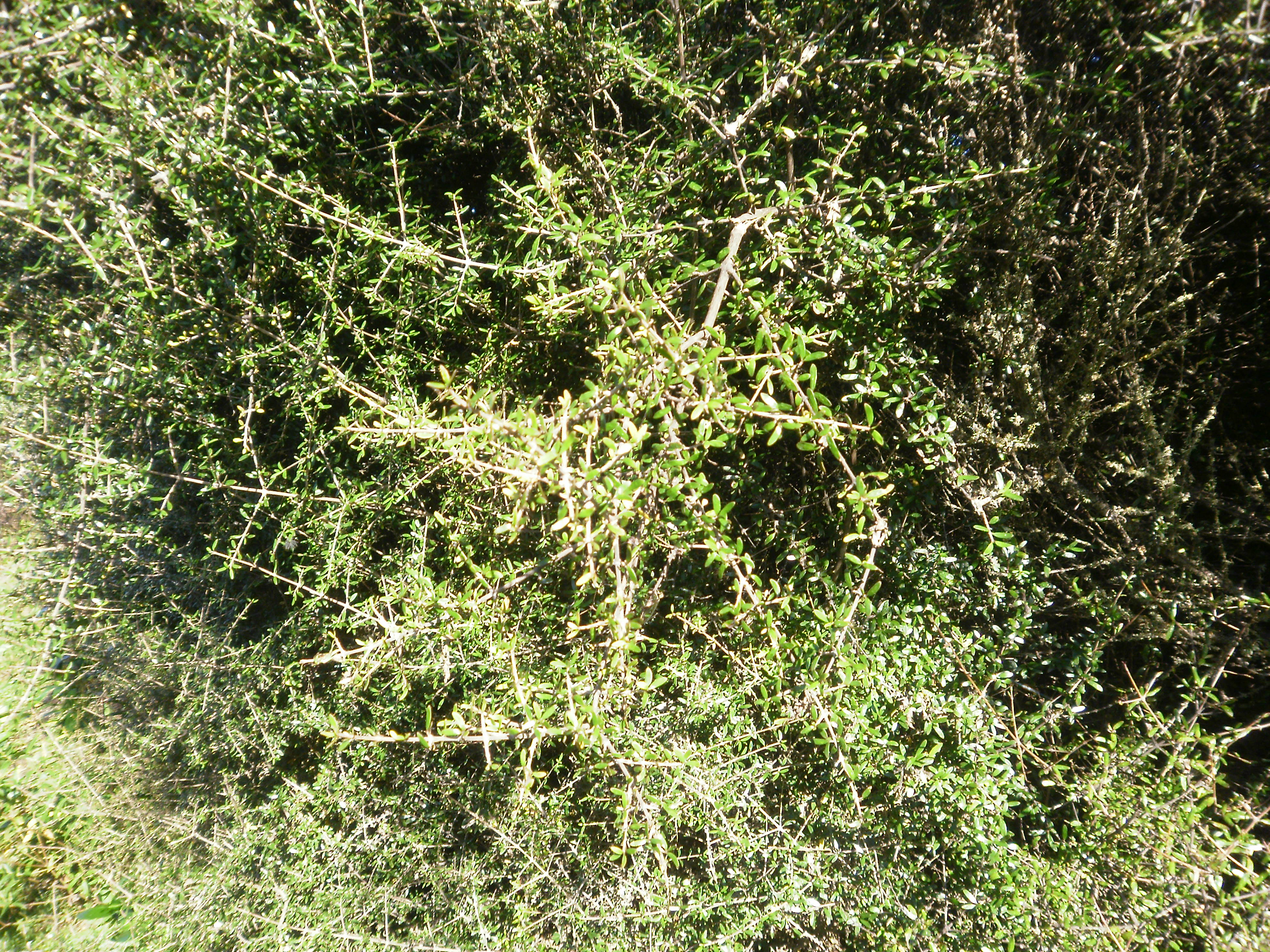 Coprosma propinqua, photographed in Pauatahanui Wildlife Reserve, Porirua, Wellington